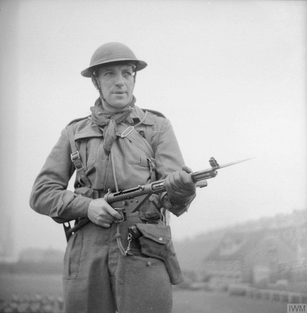 The British Army in the United Kingdom 1939-45 A soldier demonstrates the new bayonet for the Sten gun, 3 August 1942.